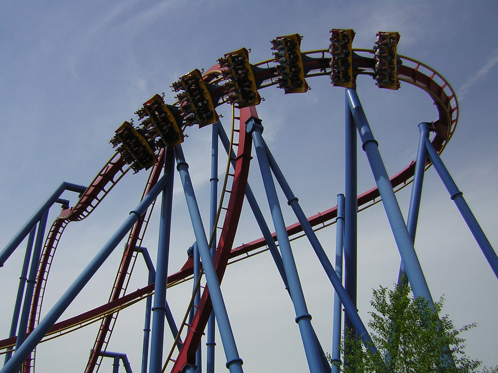 Superman - Ultimate Flight, flying roller coaster at Six Flags Over Georgia, USA.